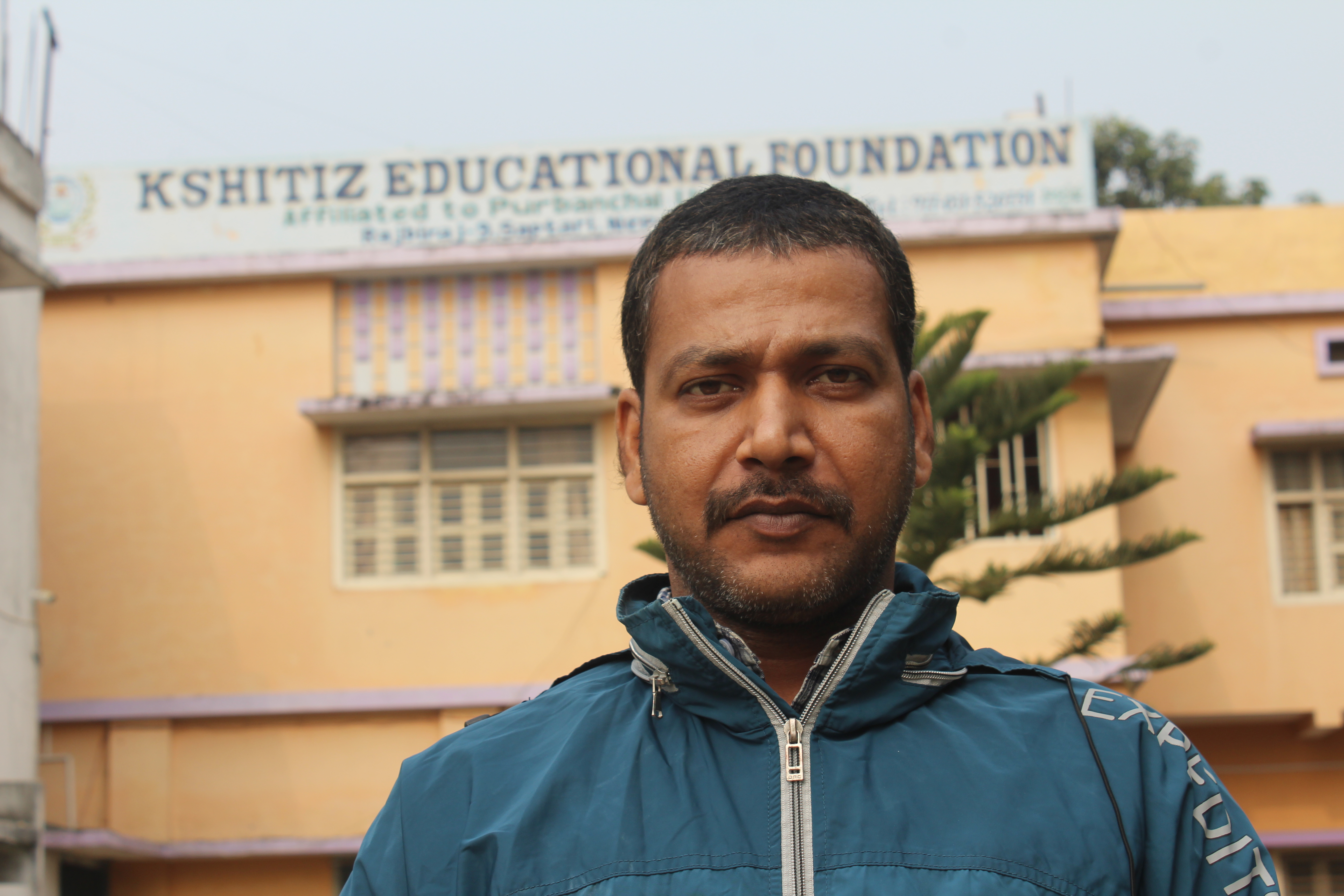 Principle of Kshitiz Education Fiundation